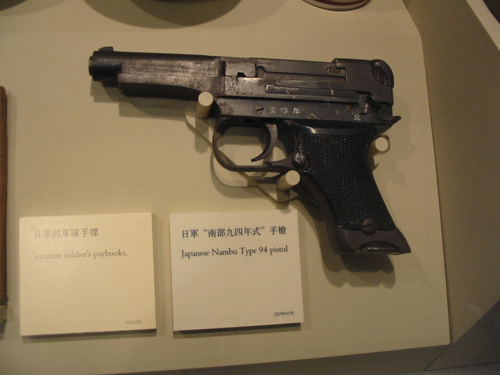 A Japanese Type 94 pistol displaying in Hong Kong Museum of History.